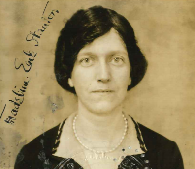 Cropped image of Madeline Stanton's passport photo